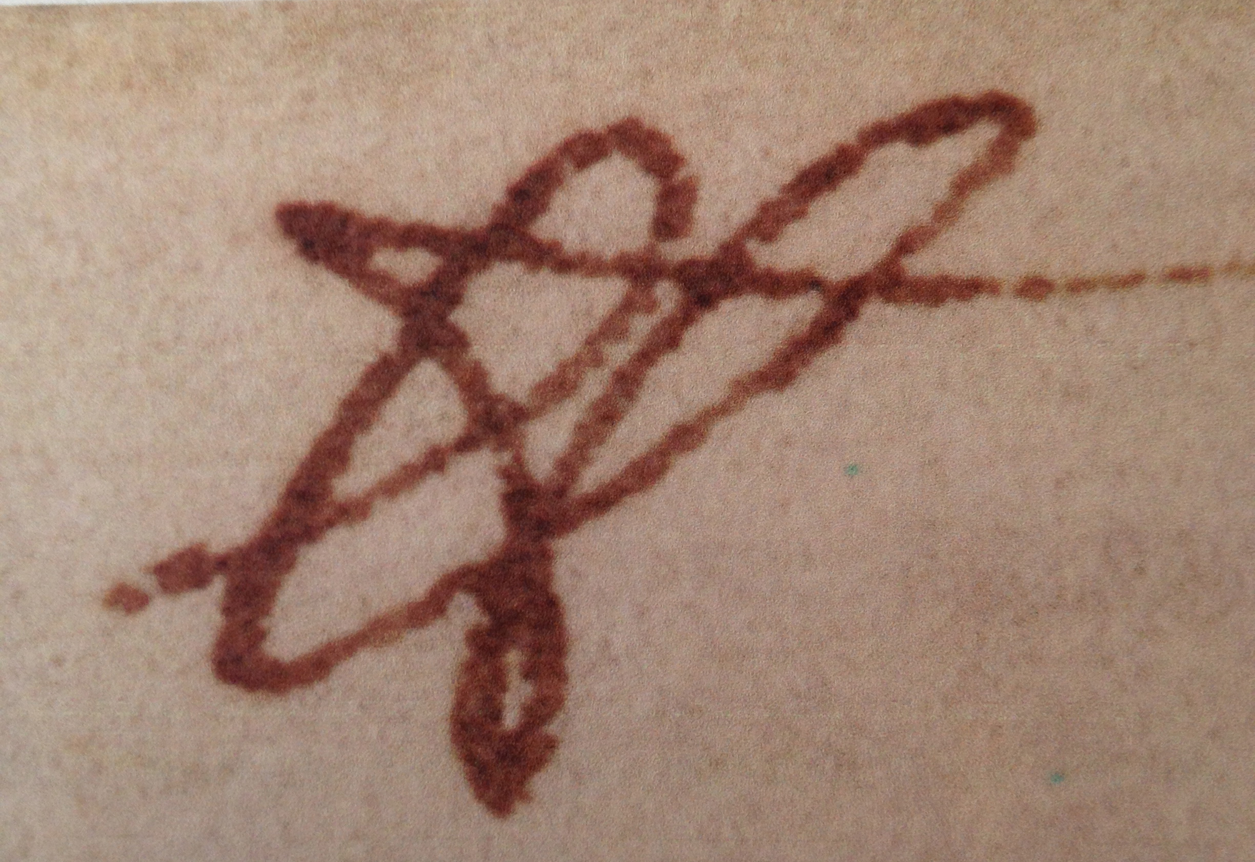 A stylized version of the abbreviation lb, which was short for the word "libra" in the Roman weight libra pondo. The origins of the octothorpe, or number sign or pound sign or hash.